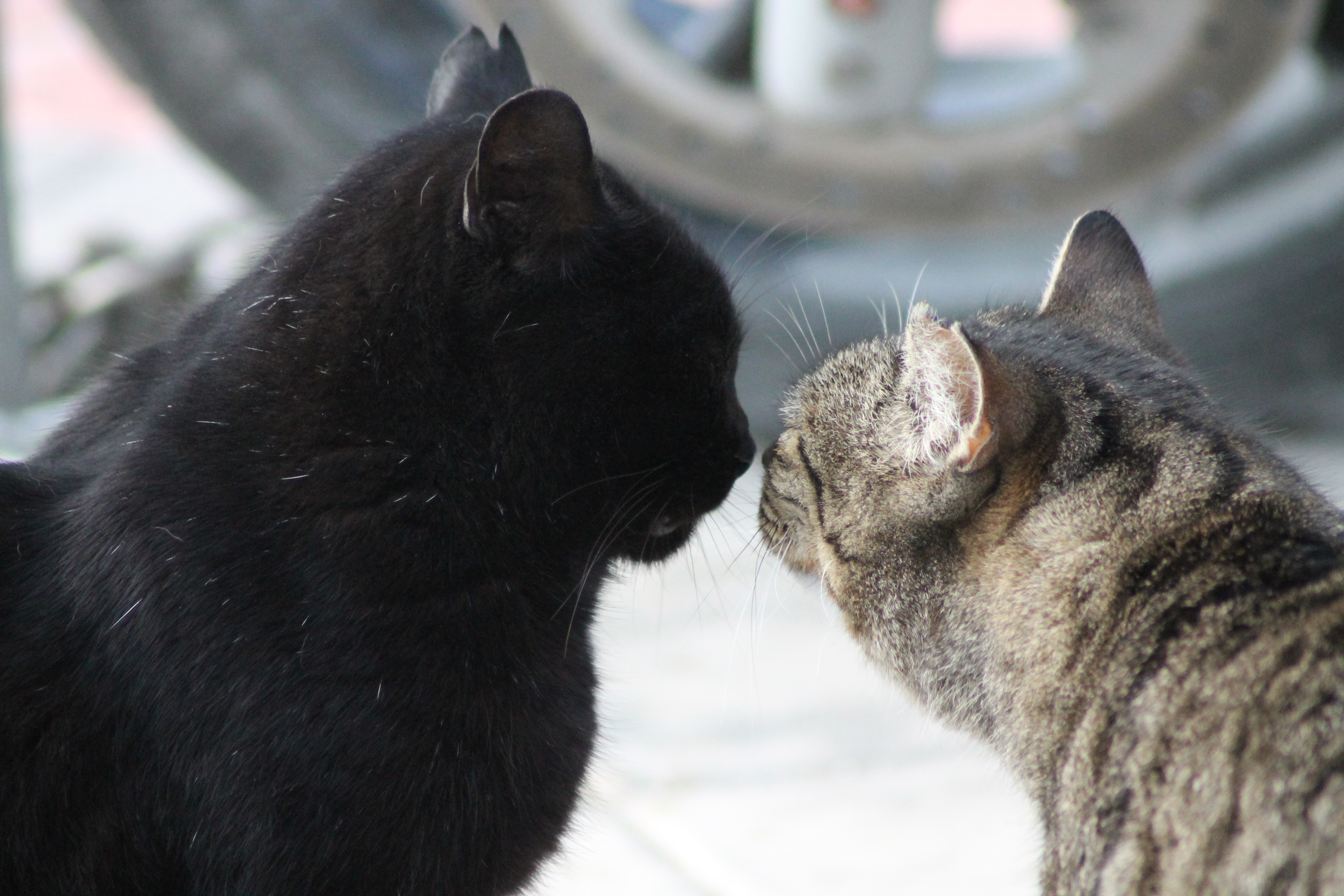 Two feral cats in Madrid (Spain).